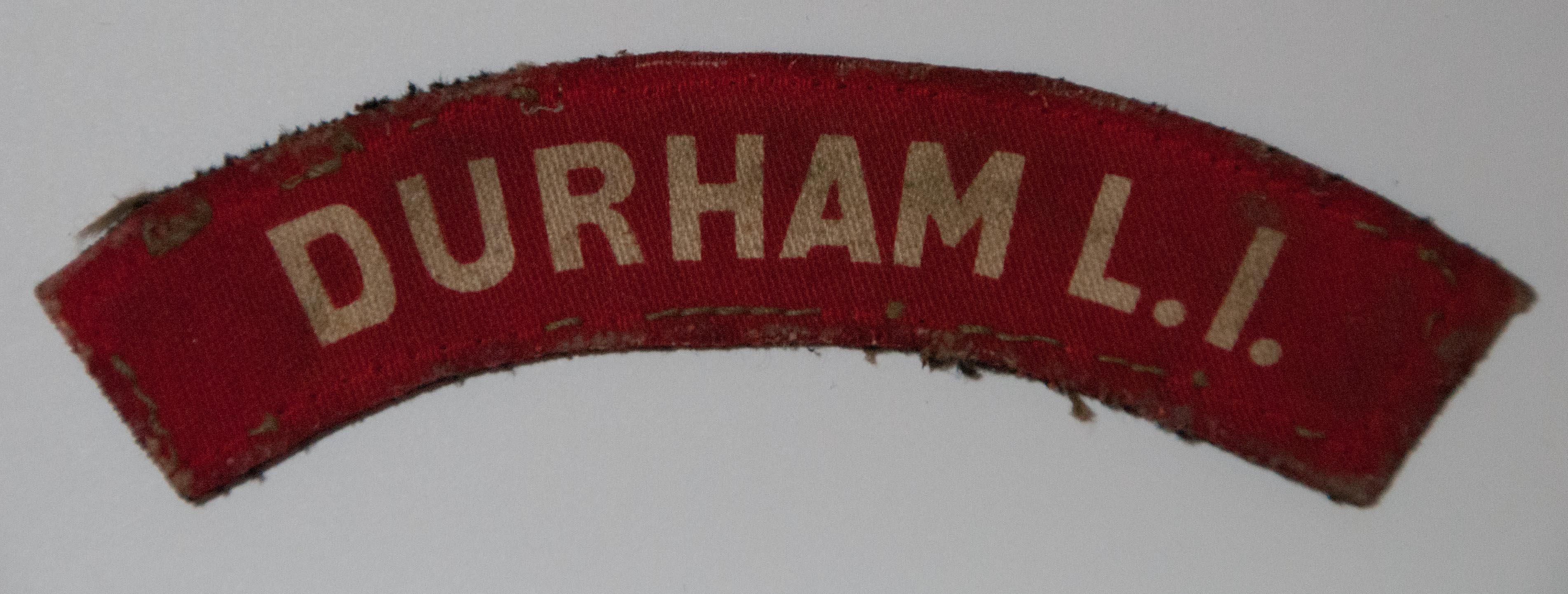 WW2 economy shoulder title of the Durham Light Infantry